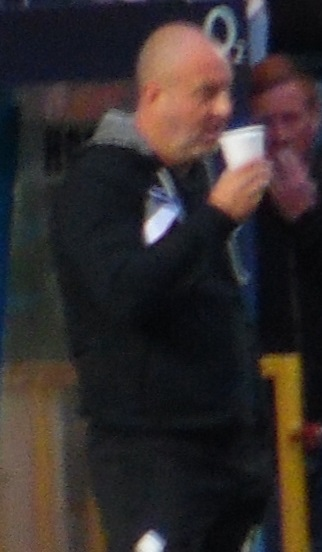 Keith Hill in 2015